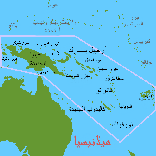 Map (rough) of Melanesia, Oceania, own work composed from various mapreferences